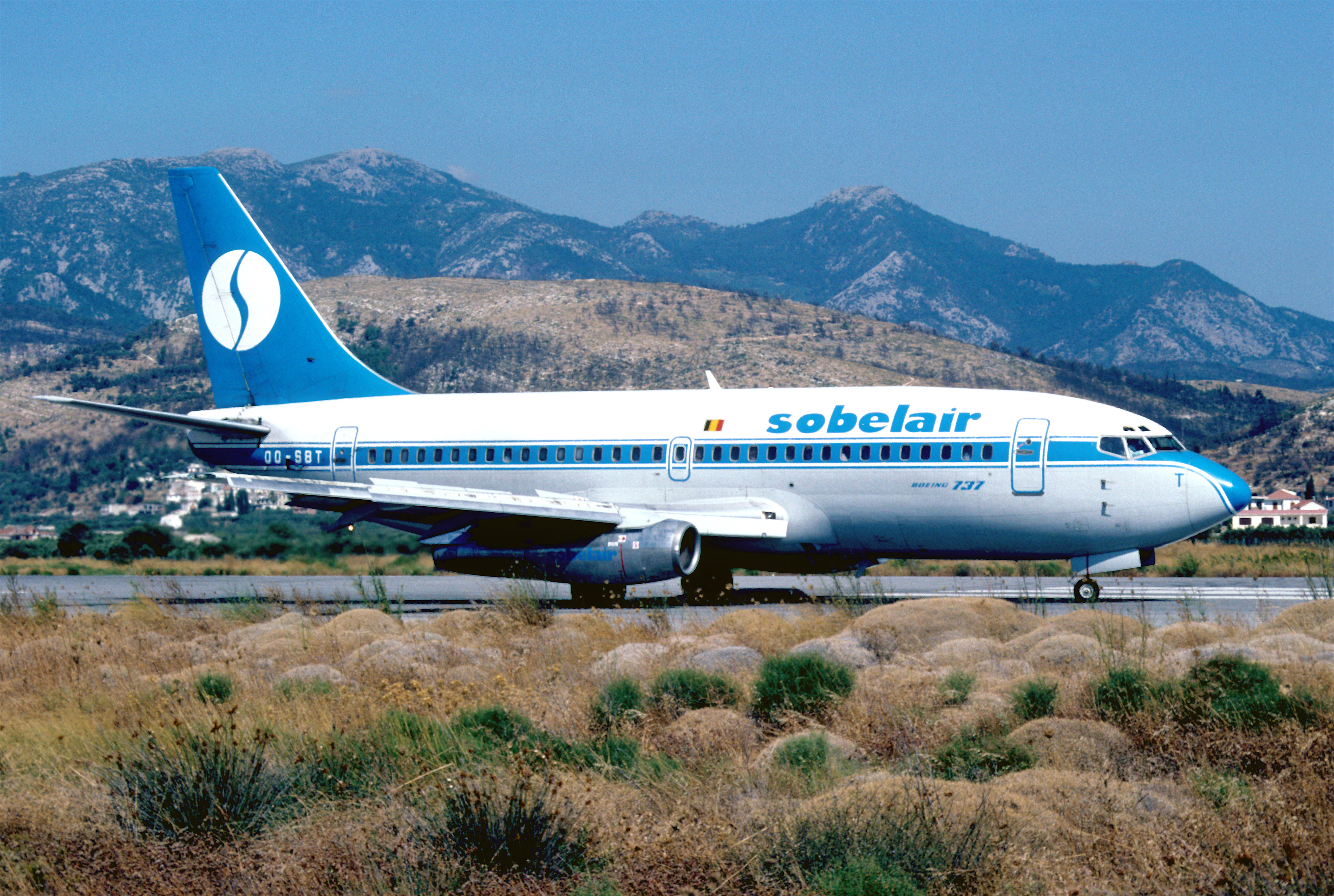 Sobelair Boeing 737-229; OO-SBT, Samos, August 1991